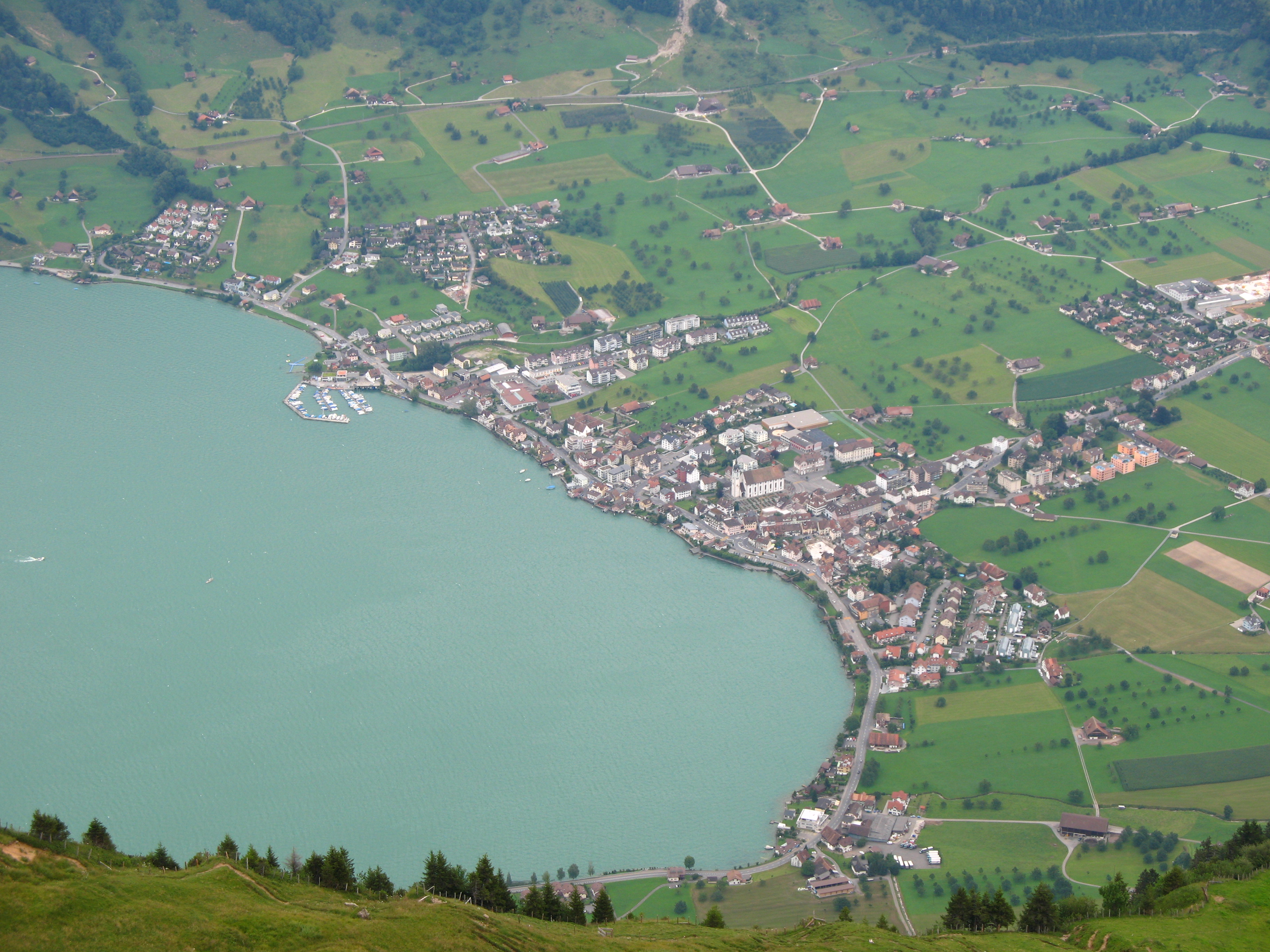 Arth viewed from the summit of Rigi, Switzerland